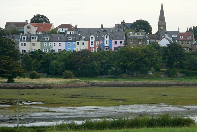 The coloured houses On the west side of Alnmouth is this row of houses that have become known as "the coloured houses". They are a distinctive feature of the village when viewed from the west, such as passing on the train.